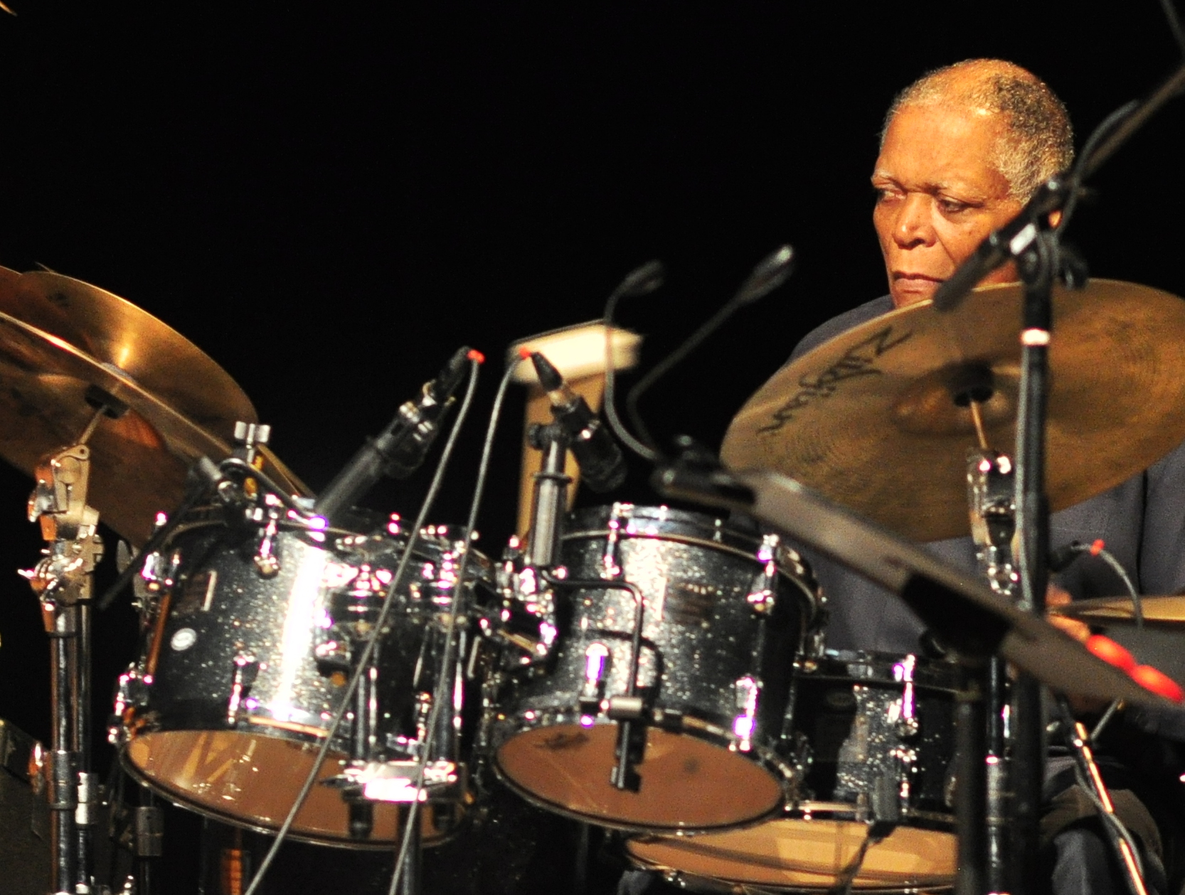 Jazz drummer Billy Hart playing with Lucian Ban's group Elevation, performing Ban's Songs from Afar, Plestcheeff Auditorium, Seattle Art Museum, Seattle, Washington, U.S.